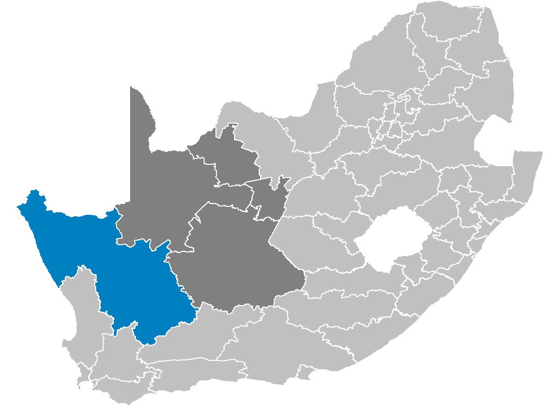 Map showing the Namakwa District Municipality higlighted within Northern Cape.